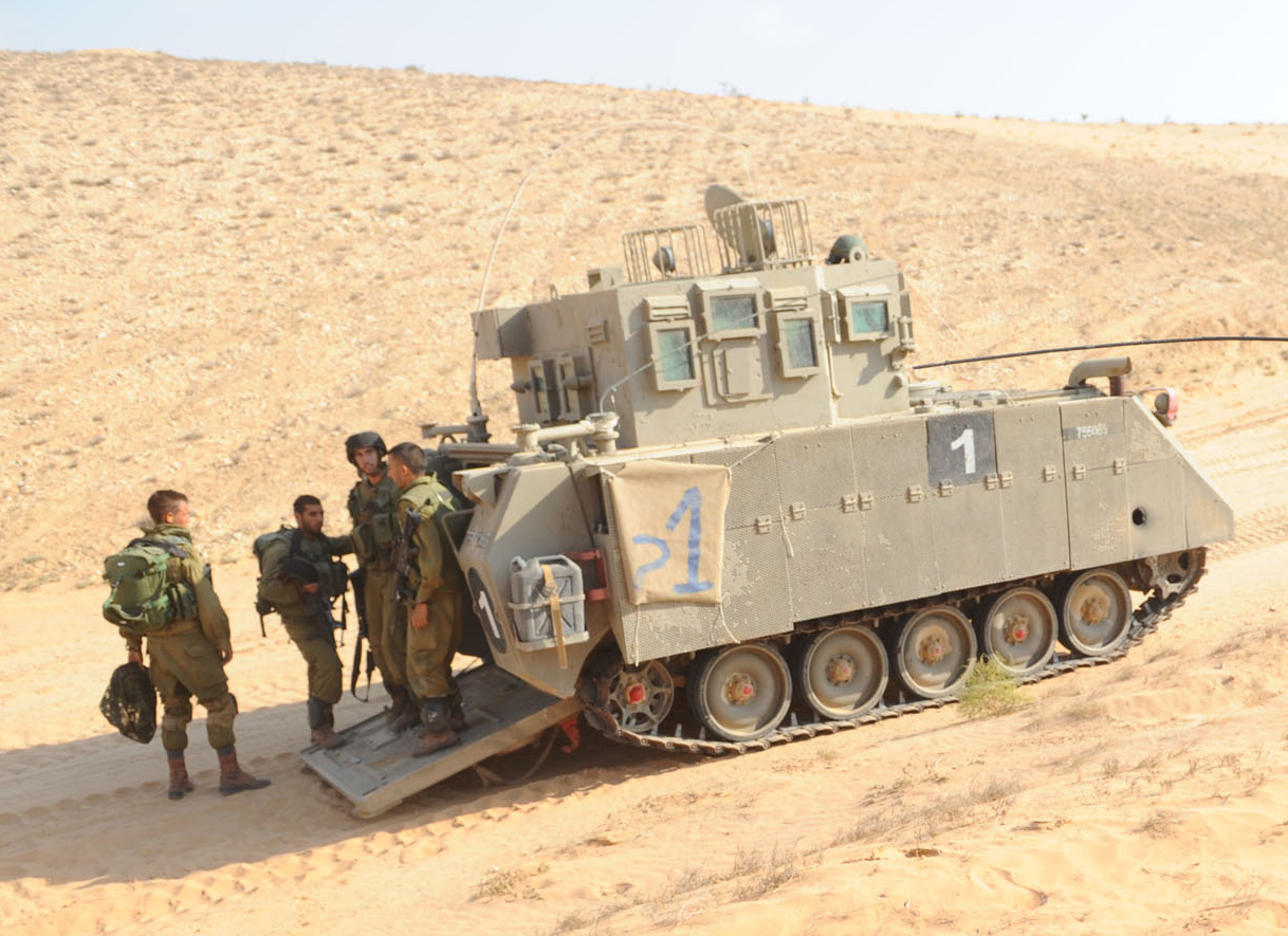 The battalion drill took place at a training base in southern Israel. The Israel Defense Forces Facebook • blog • Twitter